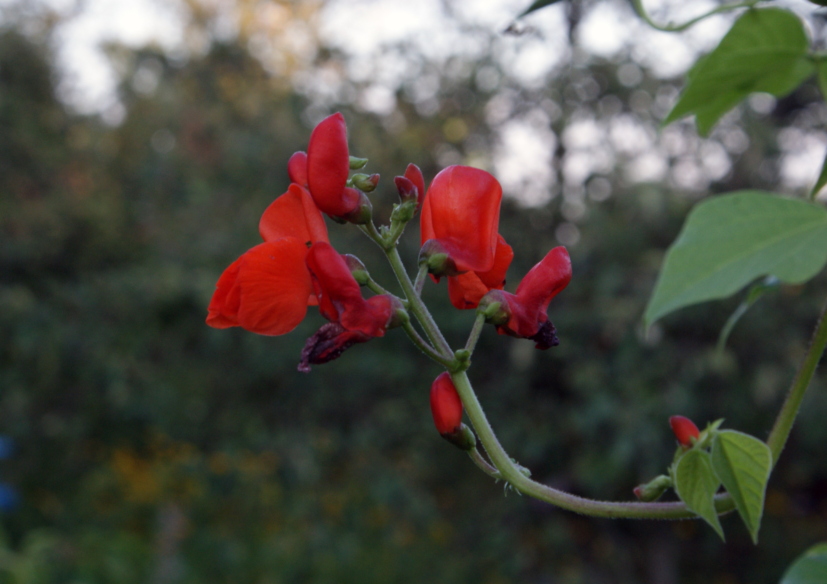 Phaseolus coccineus (flowers). Poland.